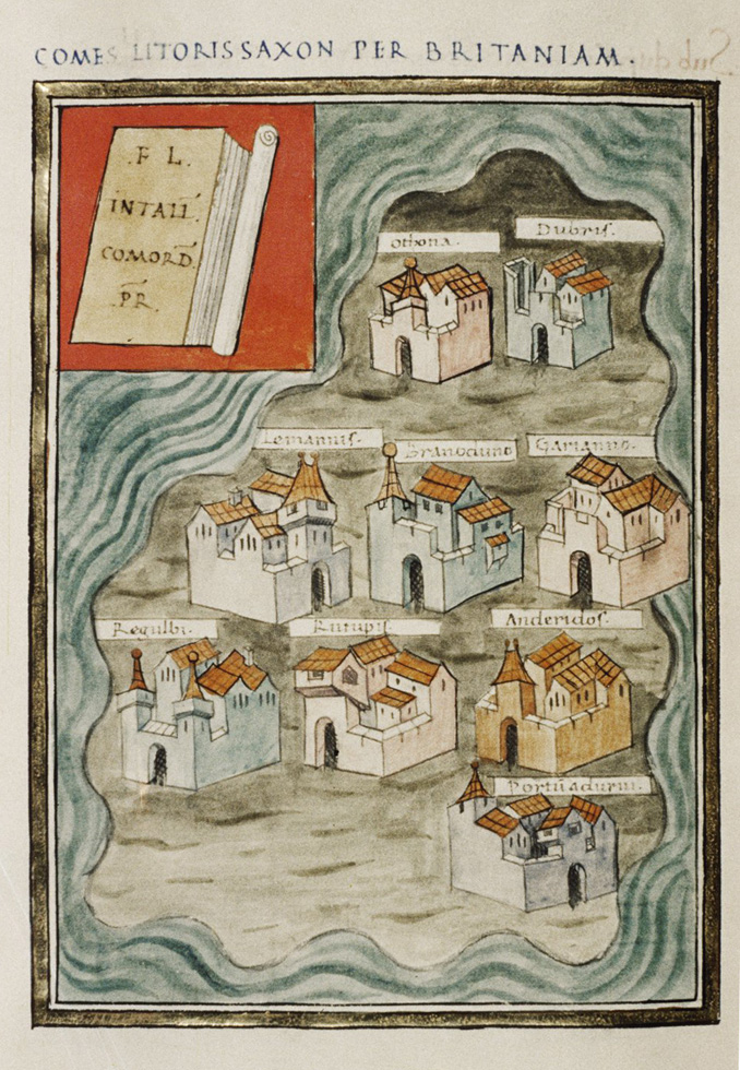 Comes litoris Saxonici per Britanniam from Notitia dignitatum.